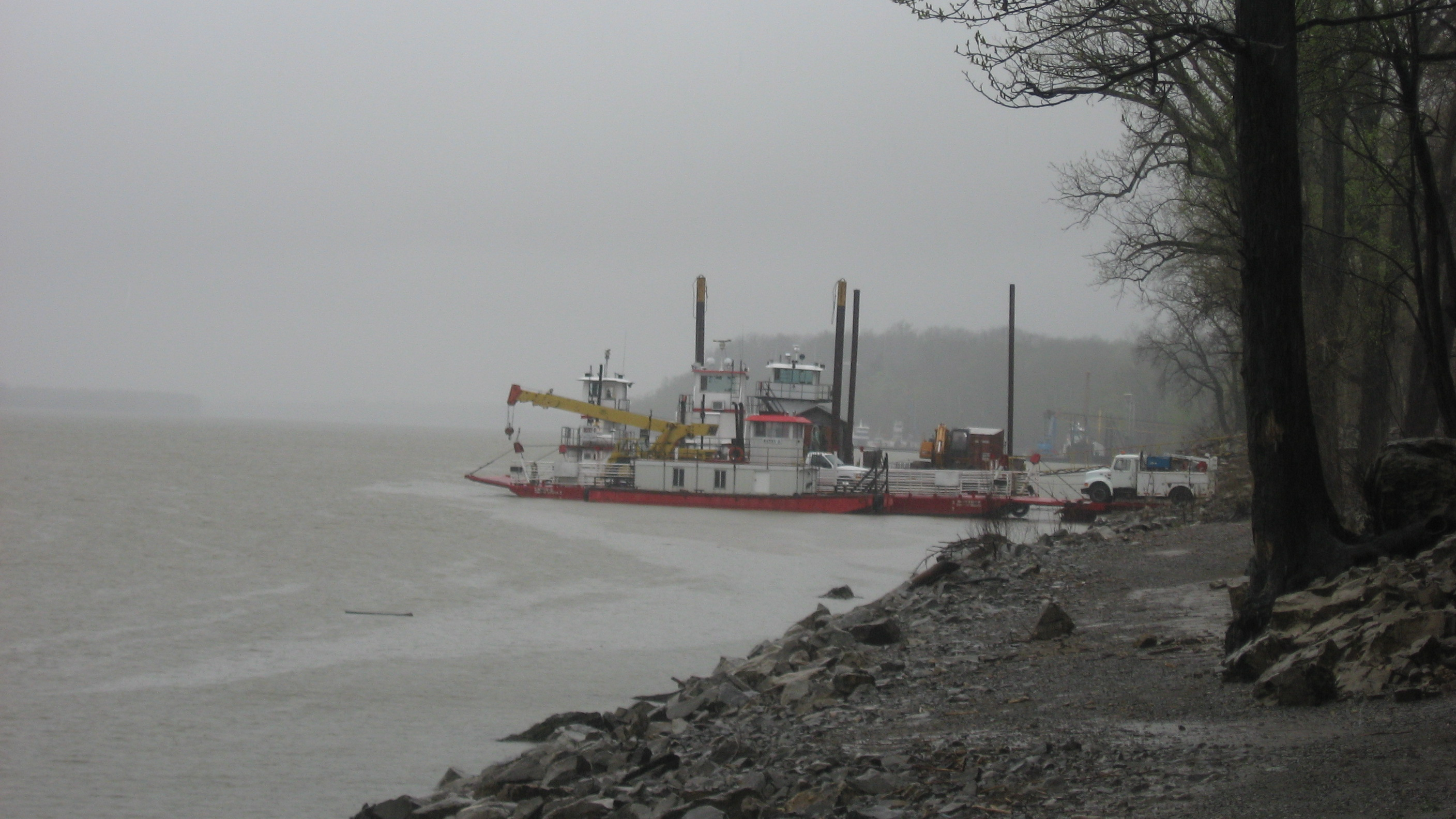 Loading a vehicle onto the Cave-in-Rock Ferry along the Ohio River at Cave-In-Rock, Illinois, United States. Picture taken from the waterline at Cave-in-Rock State Park, a short distance upstream.